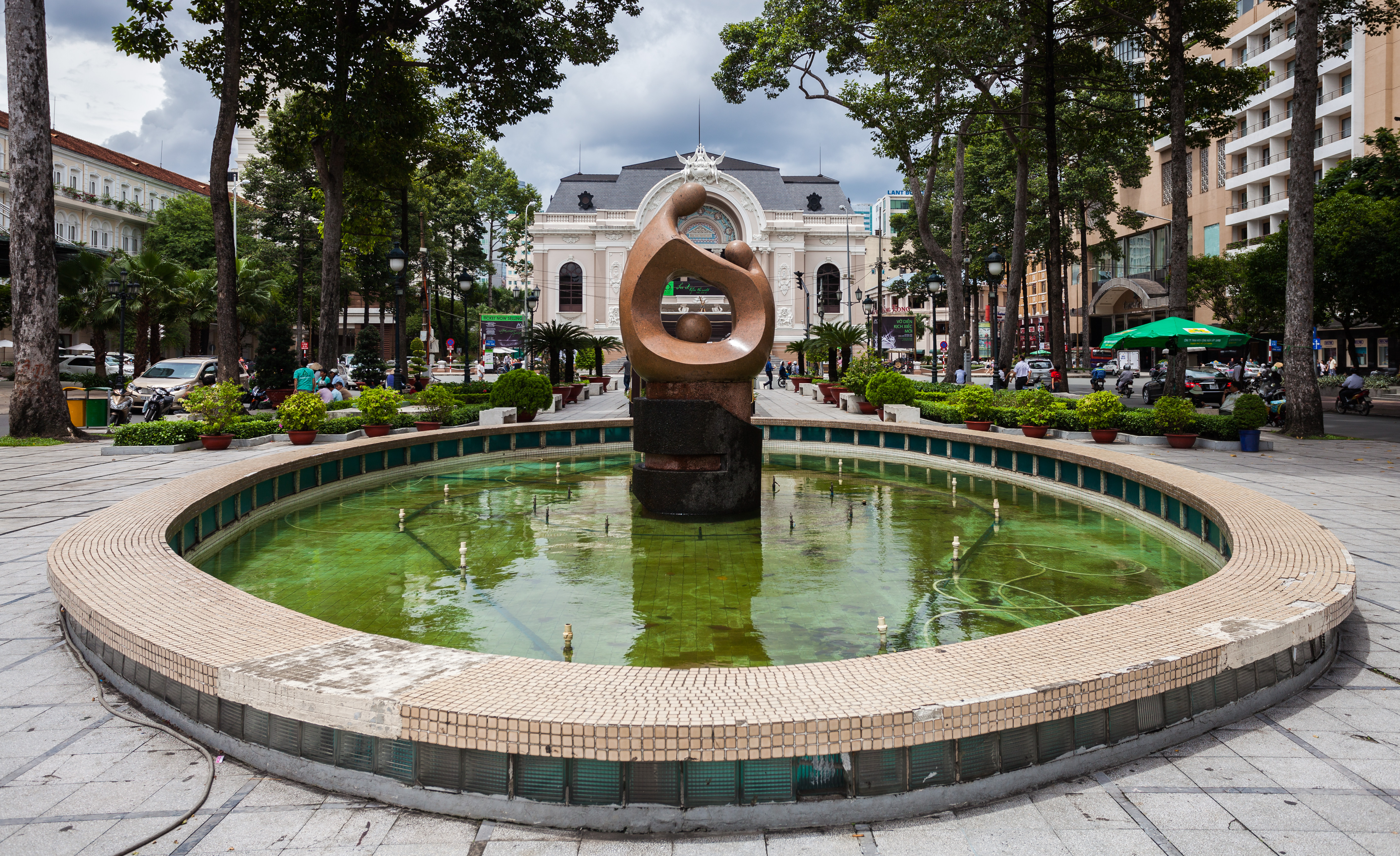 Opera house, Ho Chi Minh City, Vietnam